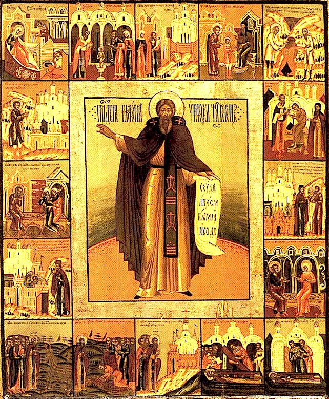 Icon of St. Macarius of Zheltovodsky, Unzhensky.